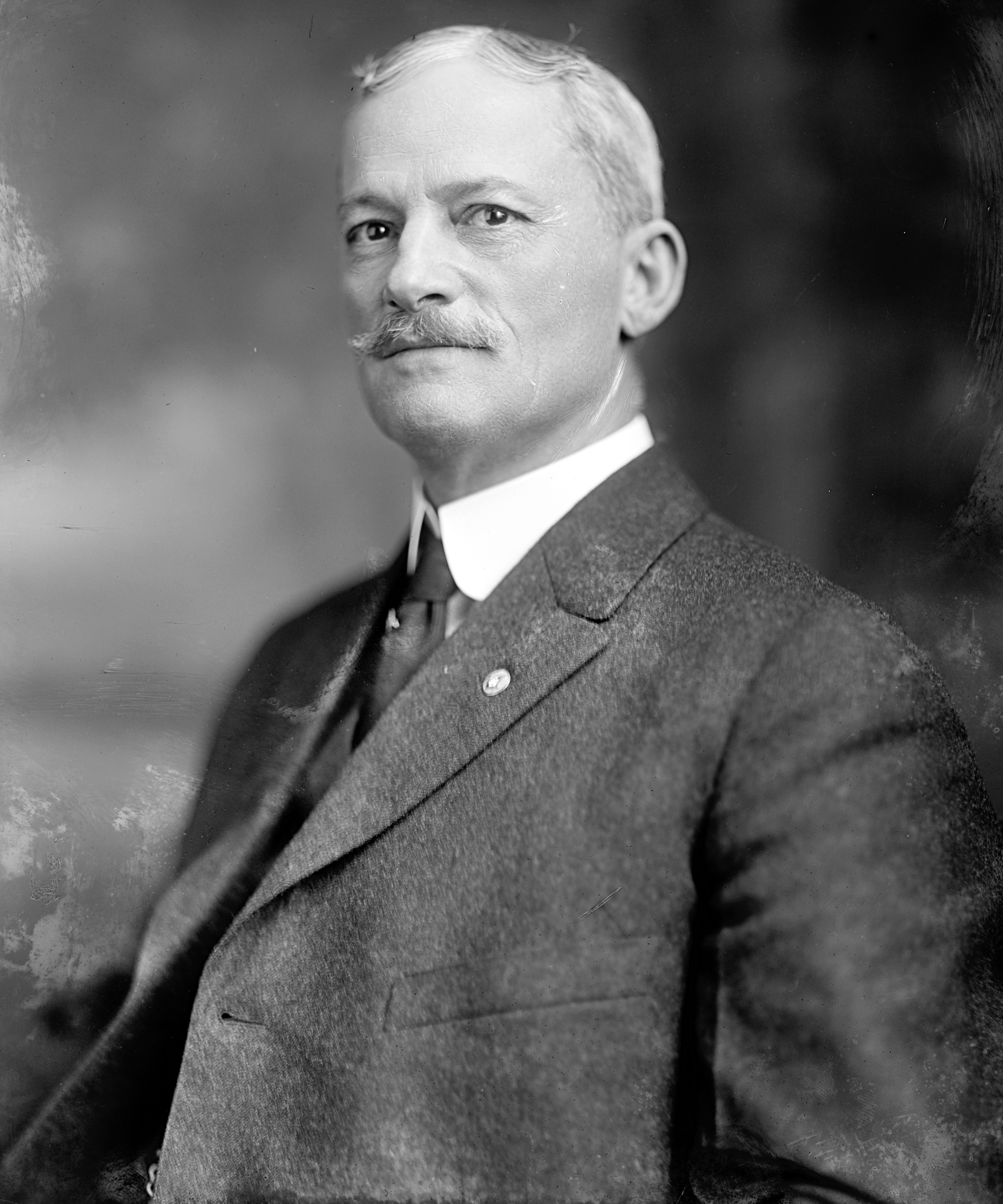 Frank Owens Smith, US Representative from Maryland